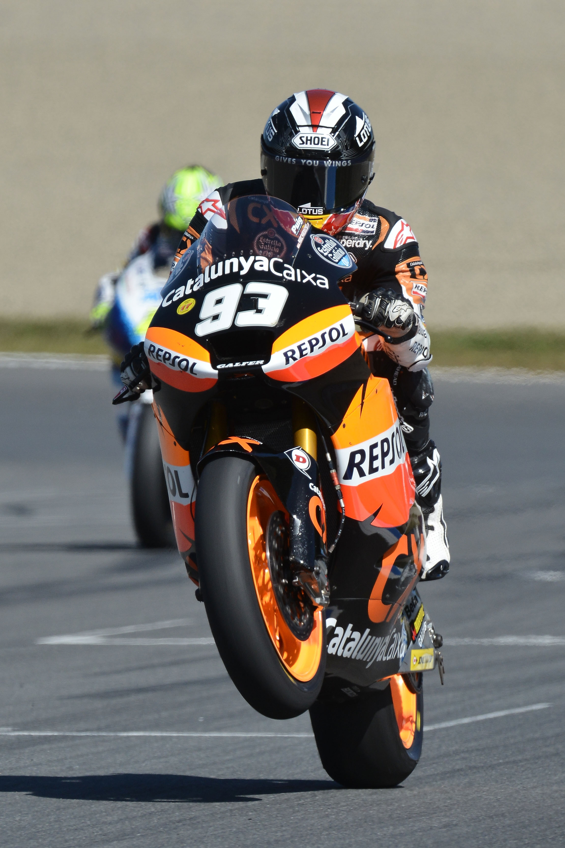 Marc Márquez, riding his Moto2 CatalunyaCaixa Repsol Suter at the 2012 Japanese Grand Prix.